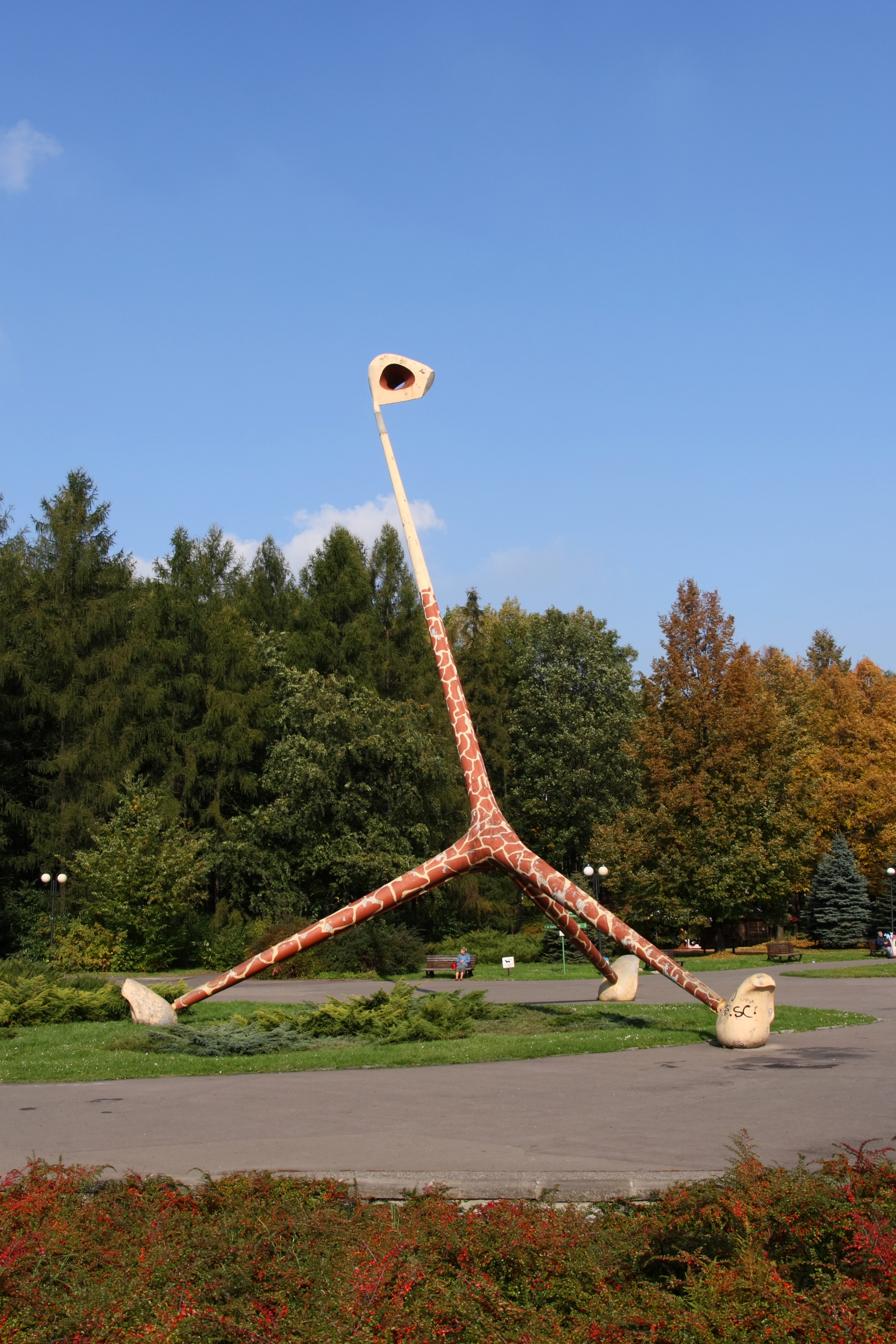 Sculpture "Żyrafa" ("Giraffe") in Silesian Central Park (Poland).